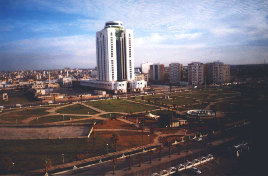 Tripoli, Libya - view from Bab el Bahr Hotel